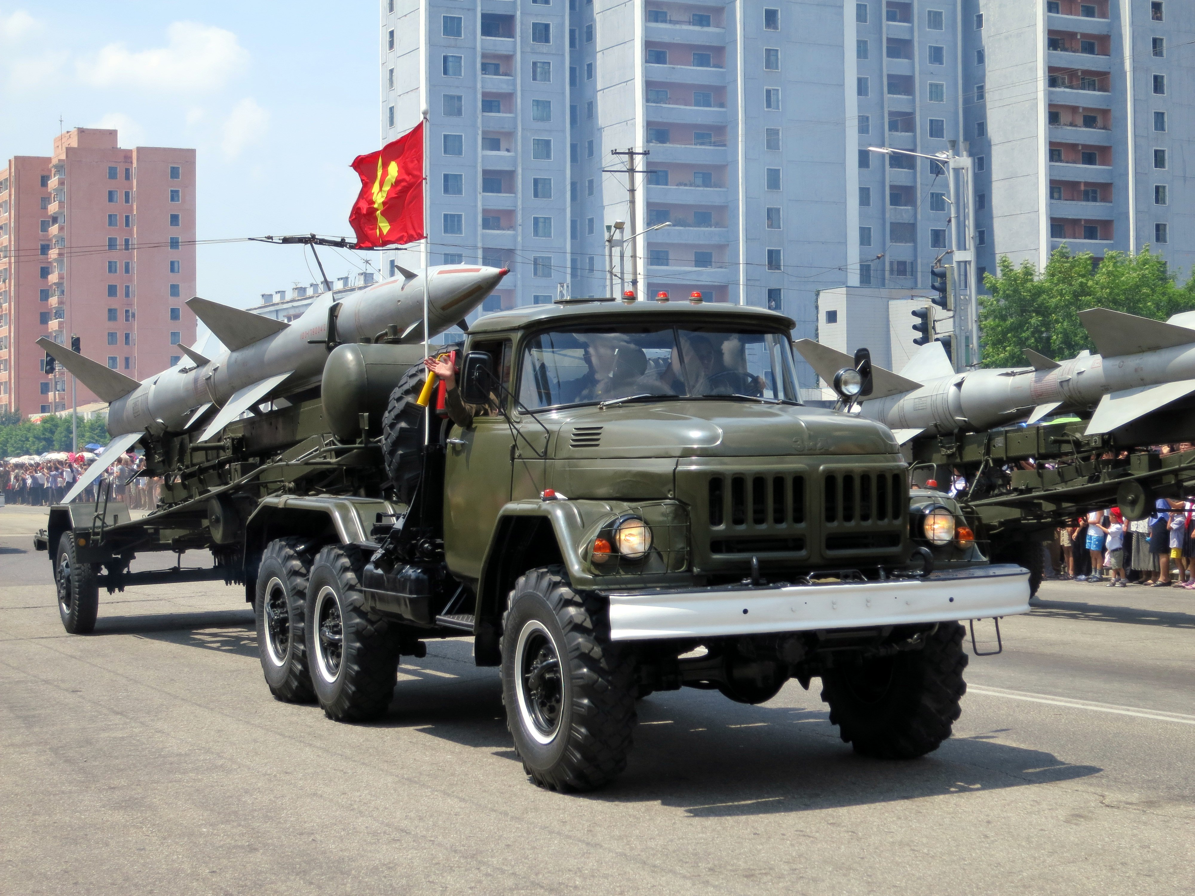 S-75 Dvina - North Korea Victory Day-2013